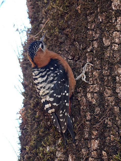 Rufous-bellied woodpecker in Pangot, Uttarkhand, India